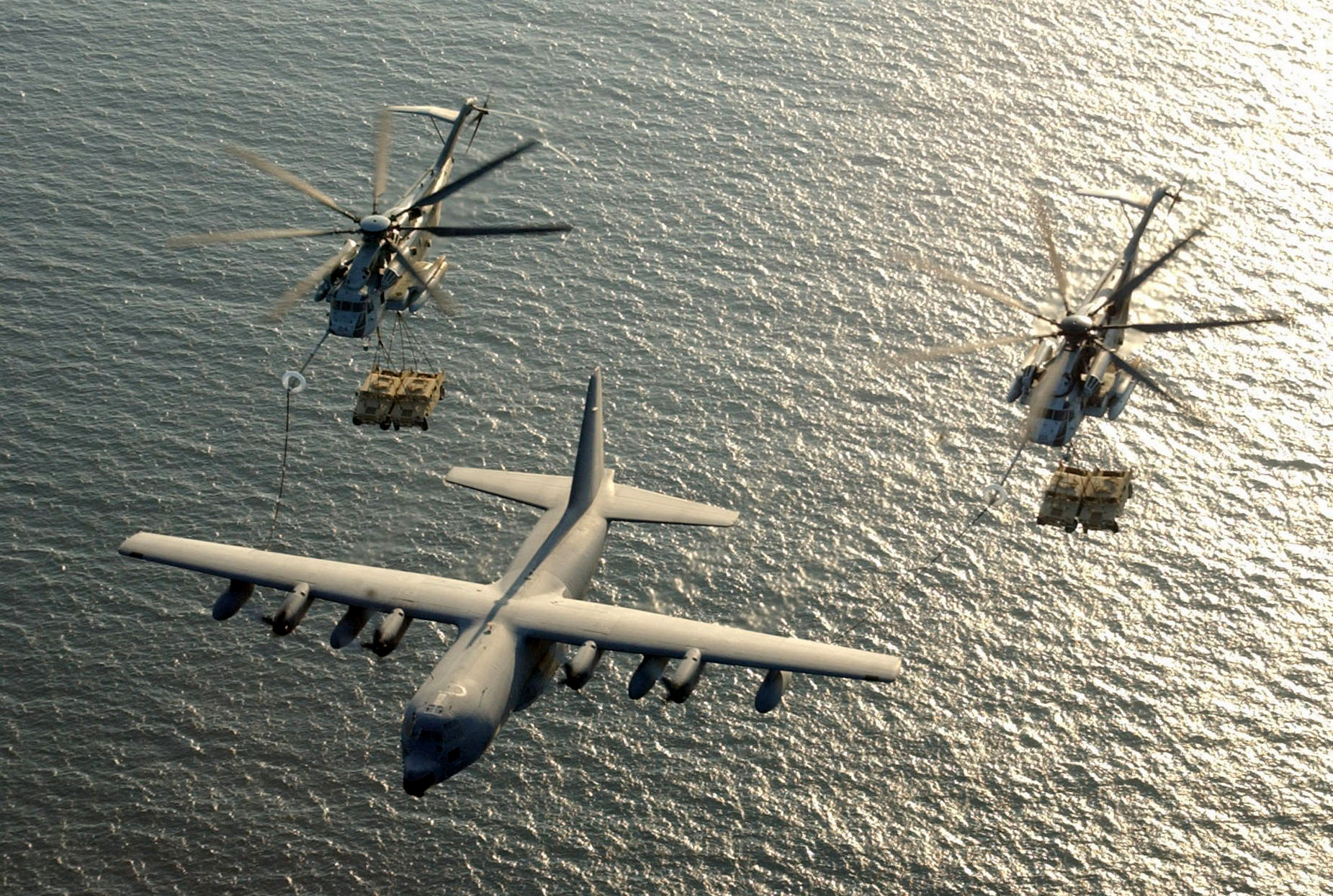 Camp Lemonier, Djibouti (Jan. 30, 2003) – Two U.S. Marine Corps CH-53E Super Stallion helicopters assigned to Marine Heavy Helicopter Squadron-772 (HMM-772) receive fuel from a KC-130 Hercules while each transport High Mobility Multipurpose Wheeled Vehicles (HMMWV) over the Gulf of Aden. The reserve squadron based at Willow Grove, Pa., is currently attached to the 24th Marine Expeditionary Unit Special Operations Capable (SOC), supporting mission in support of the war against terrorism. U.S. Marine Corps photo by Cpl. Paula M. Fitzgerald. (RELEASED)